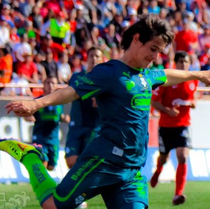 Santos player Jorge Ivan Estrada